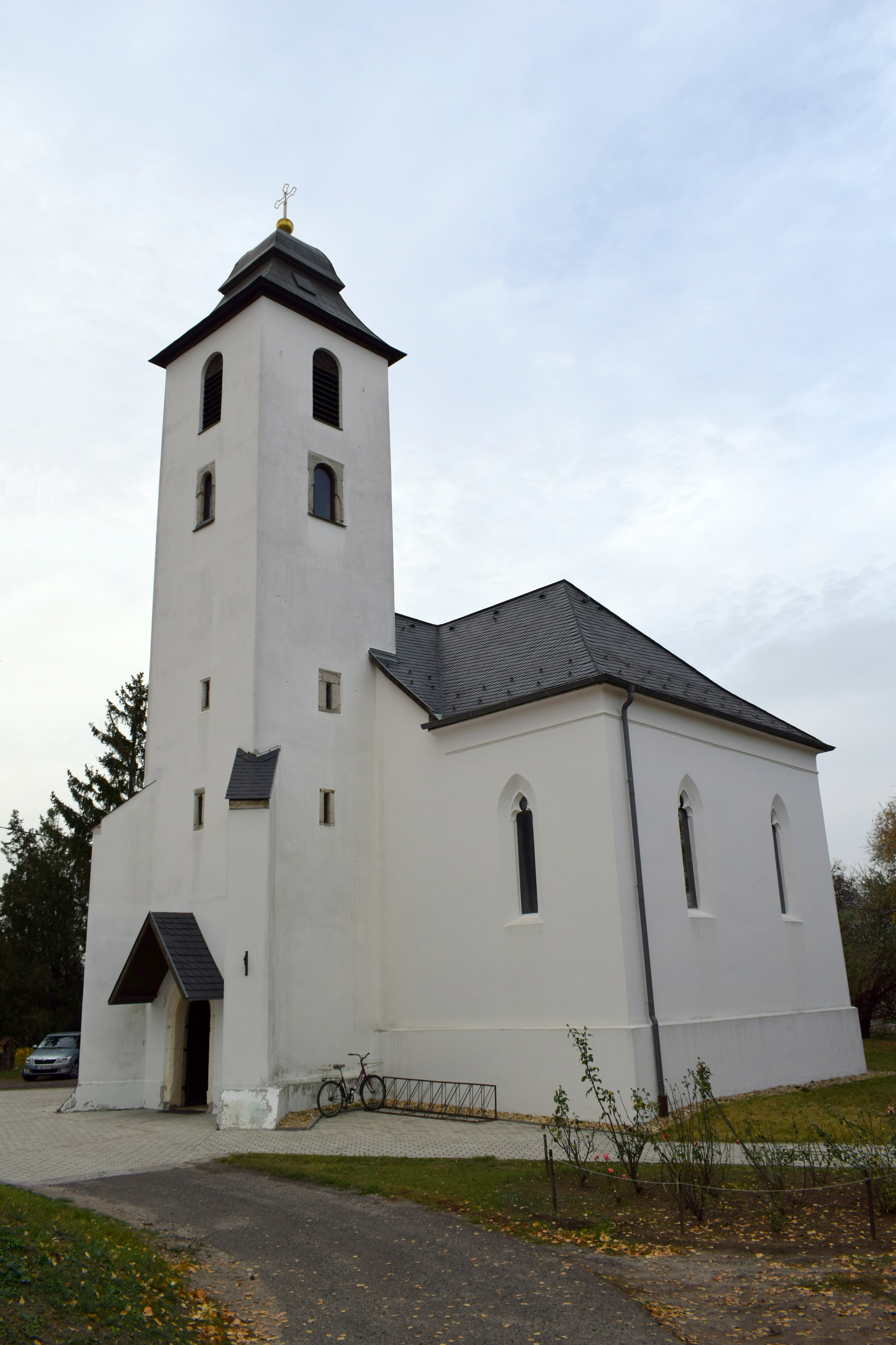 The medieval church of Tápiósüly (Sülysáp).